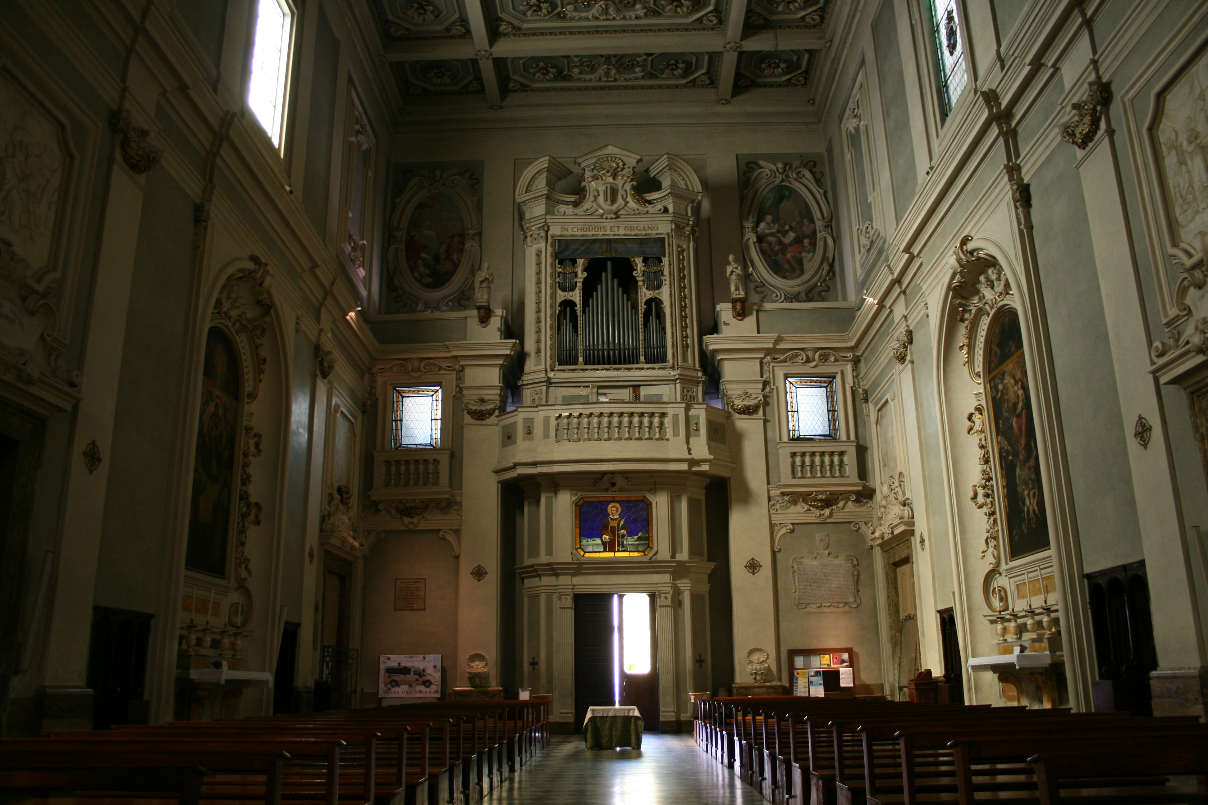 The organ